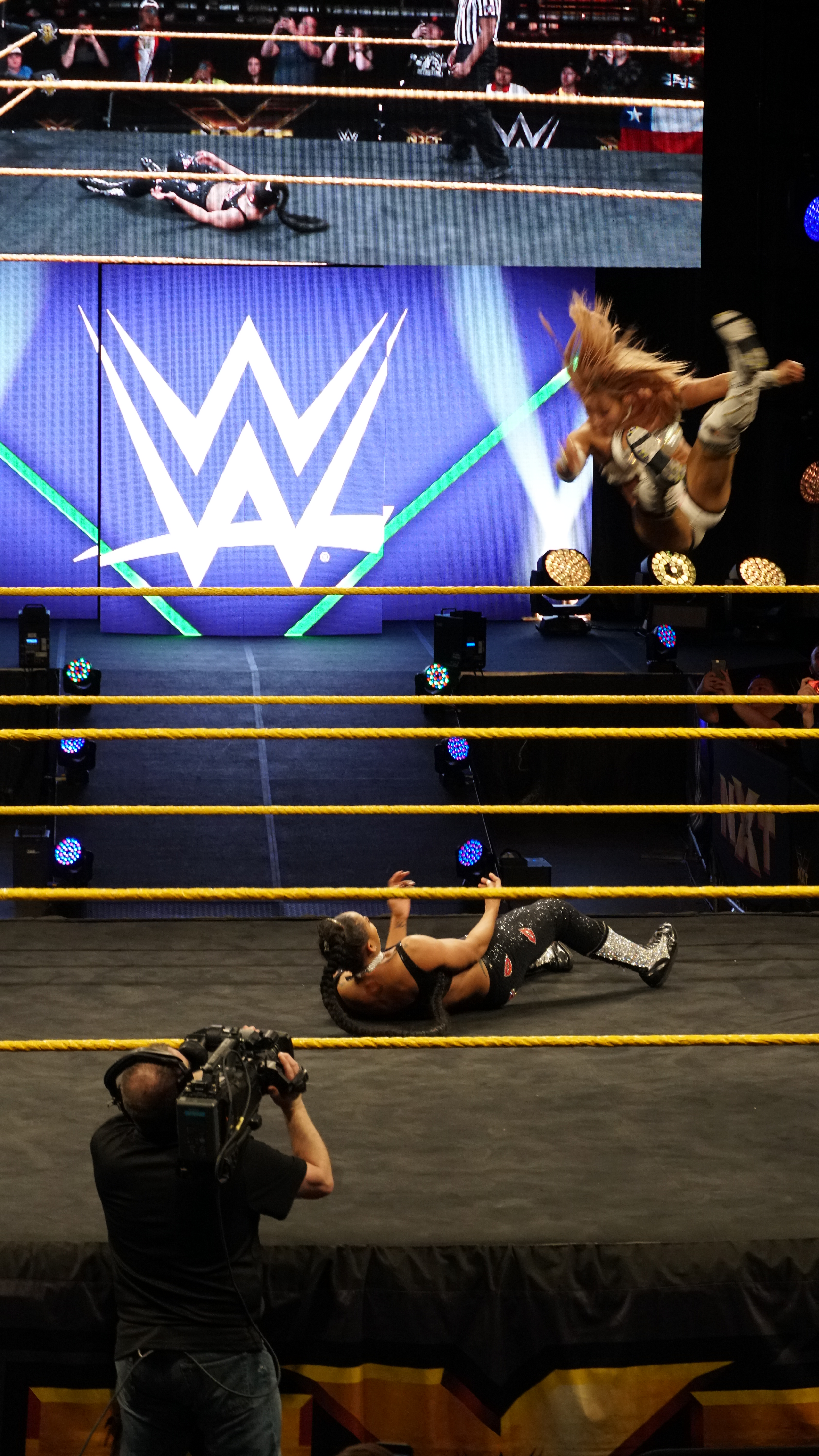 NOLA 2018 - WWE Axxess - Thursday - Kairi Sane Vs Bianca BelAir Kairi Sane def. Bianca BelAir ( Deux semaines a Nola pour la ville et pour WWE Wrestlemania XXXIV Two weeks Nola for the city and for WWE Wrestlemania XXXIV )